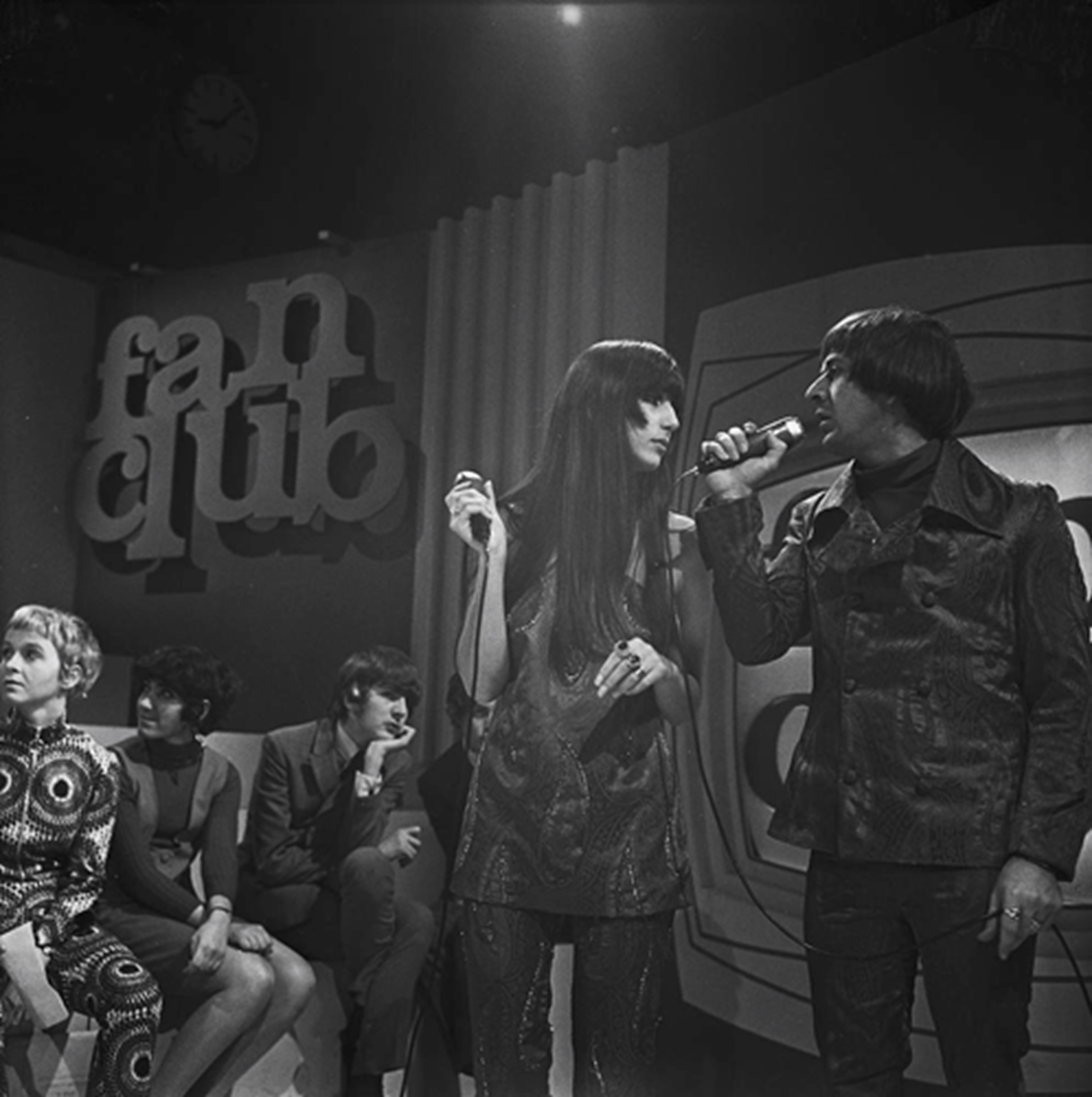 Sonny & Cher performing the song "The beat goes on" on Dutch TV programme Fanclub, 4 February 1967